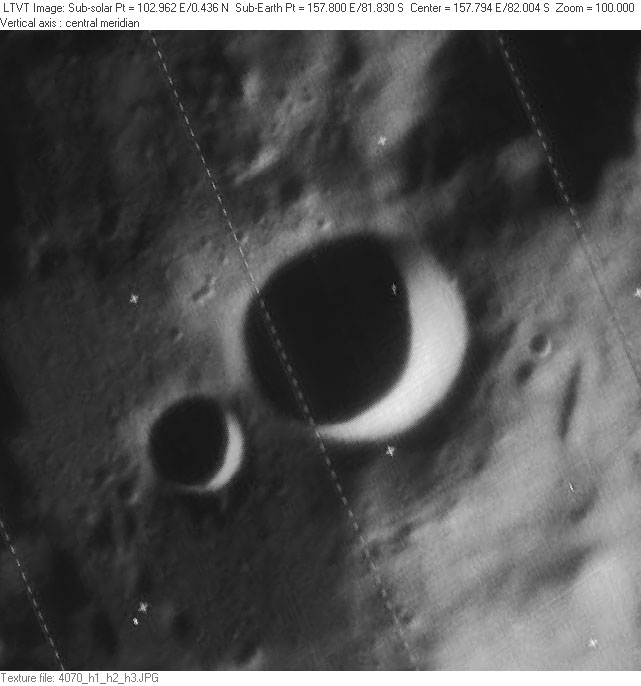 Crater Braude. Detail from Lunar Orbiter IV-070H. High resolution scans from the USGS Lunar Orbiter Digitization Project remapped to a north-up aerial view by LTVT.